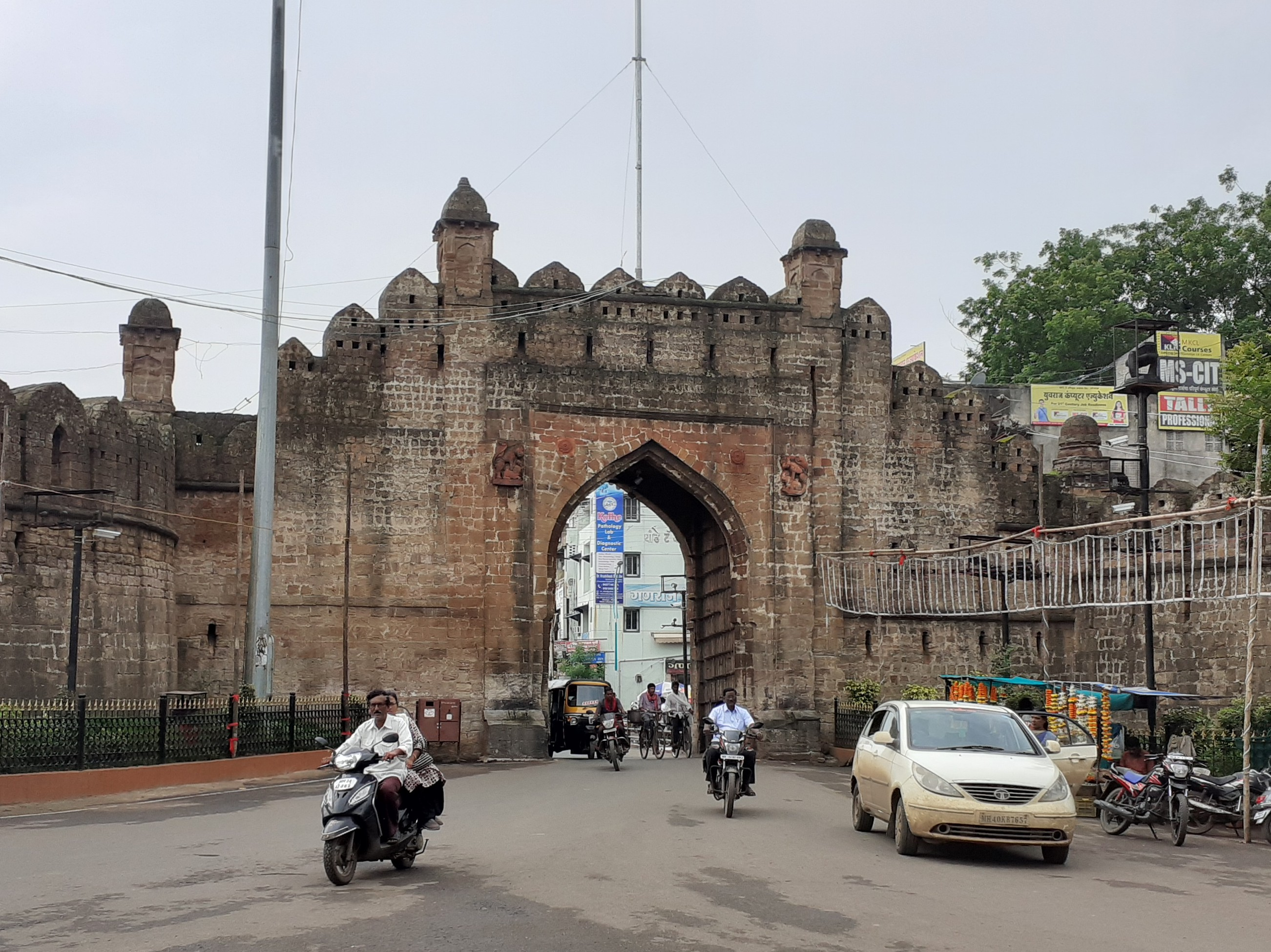 Jatpura Gate at Chandrapur, part of fort Wayne at Chandrapur that's an ASI monument of national importance.